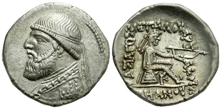 Silver Drachma of partian king Mithradates II, aka Arsakes VIII (123-88 BCE), made in Ecbatan mint (Actual Hamedan city, Iran) Obverse: king Mithradates represented into a greek fashion profile Reverse: greek inscription "Basileus (king) Arsakes, the philhellen", king arsakes sitting on an omphalos and holding a bow. Note that the king wear the traditional iranian hat named Bashlik, and the traditional parthian baggy trouser.